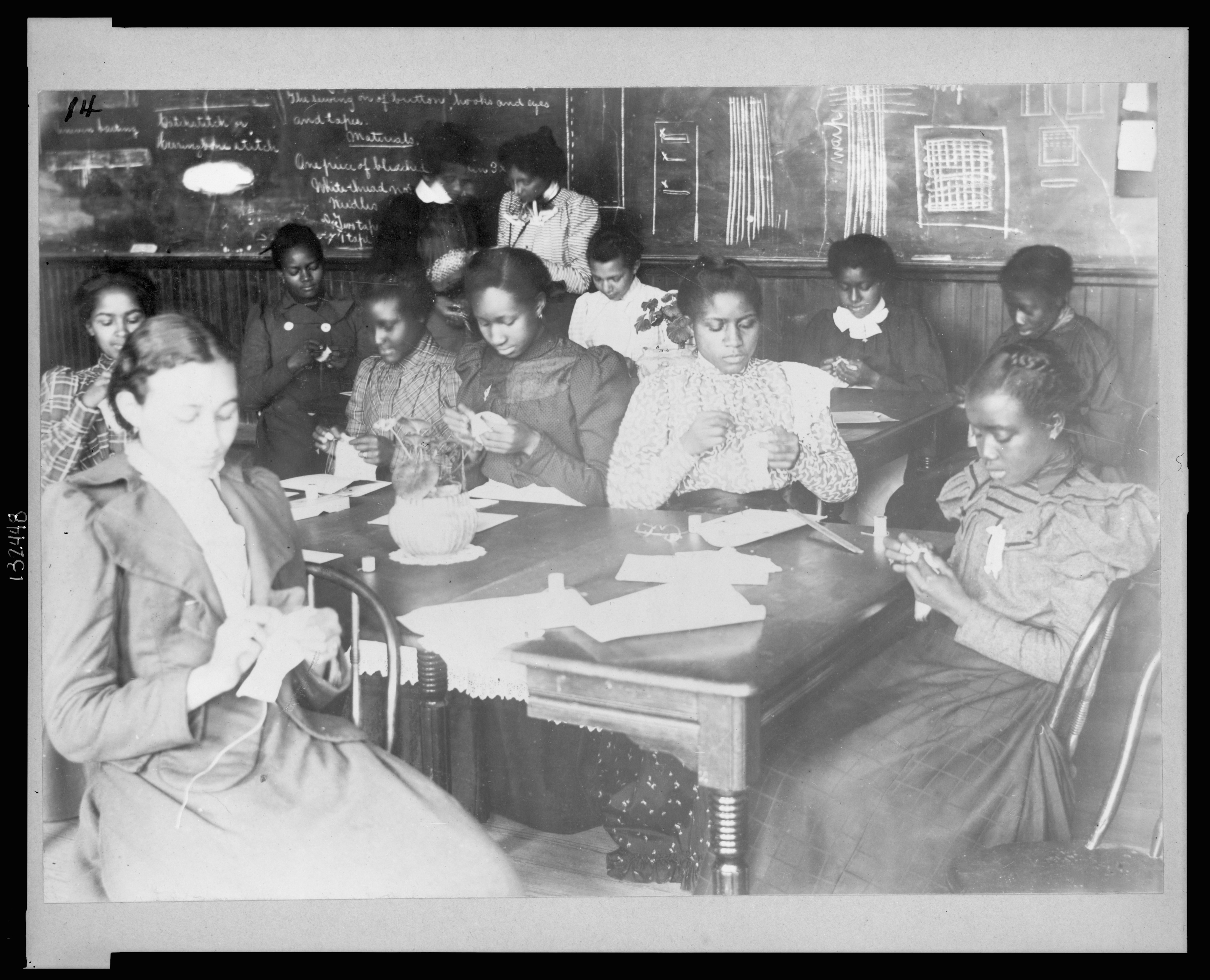 Title: Sewing class at Haines Normal and Industrial Institute, Augusta, Georgia Abstract: African American students sewing in a classroom. Physical description: 1 photographic print. Notes: Exhibited: Paris Exposition of 1900 (Exposition universelle internationale de 1900), images collected by W.E.B. Du Bois and Thomas J. Calloway for the "American Negro Exhibit".; No. 14.; Title from item.